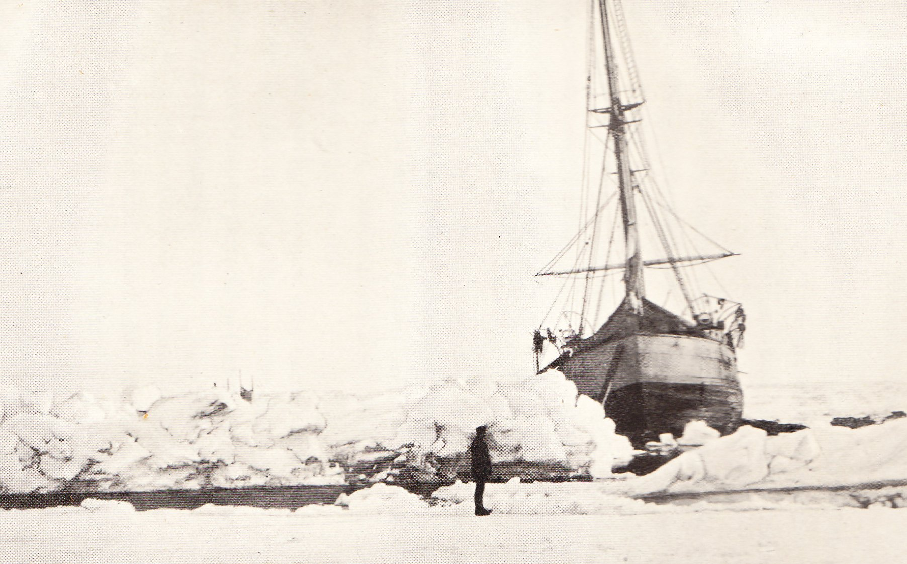 Photograph of Nansen's ship Fram, near the end of its drift in the Arctic Ocean, 1893-96